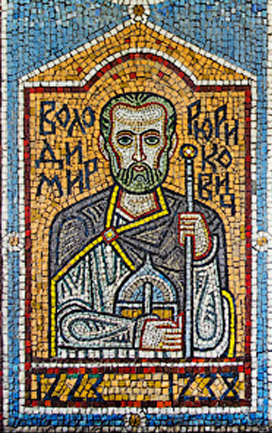 Vladimir IV of Kiev